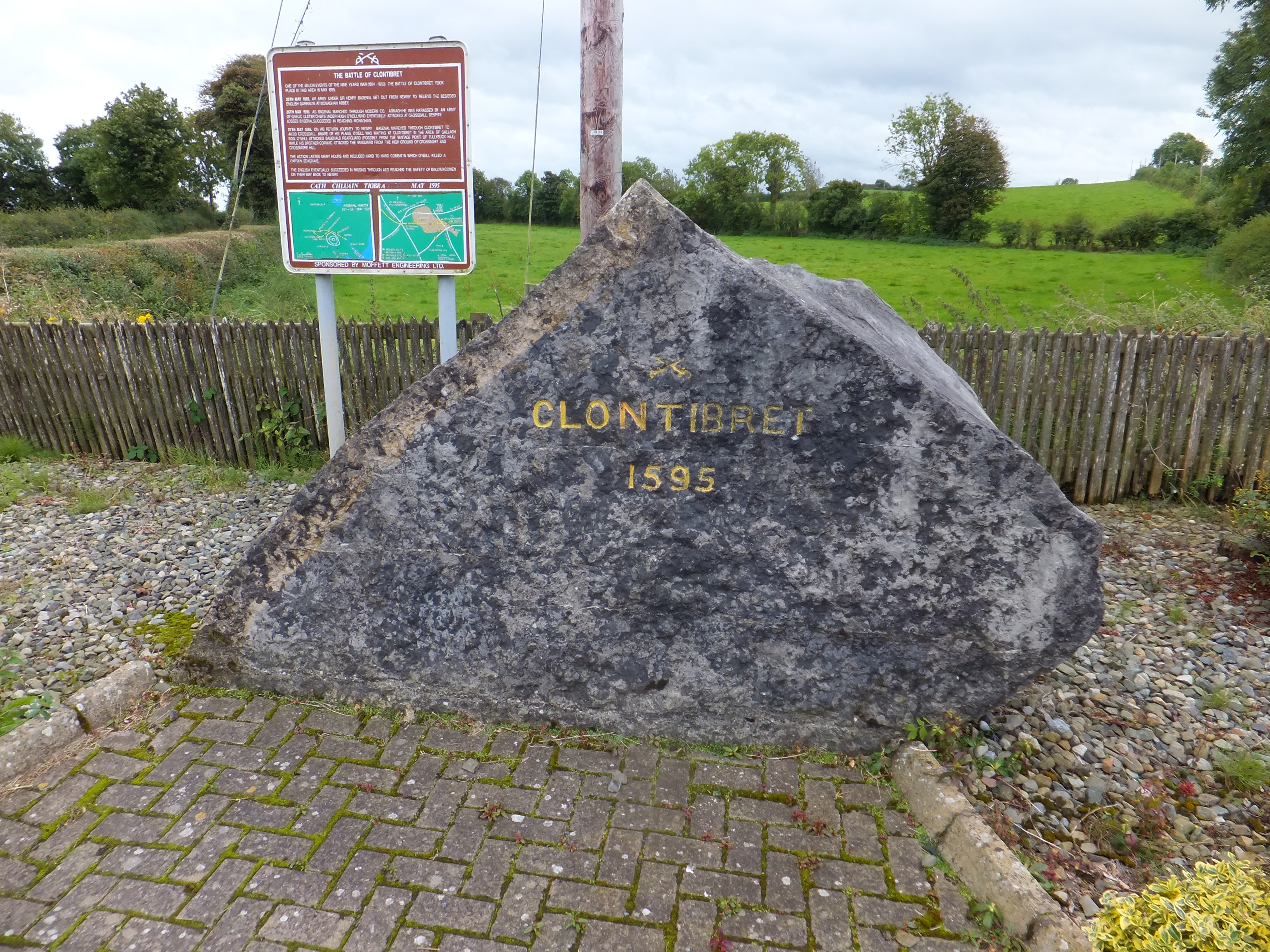 This stone commemorating the Irish victory at Clontibret, 1595 site on the northern edge of the battlefield